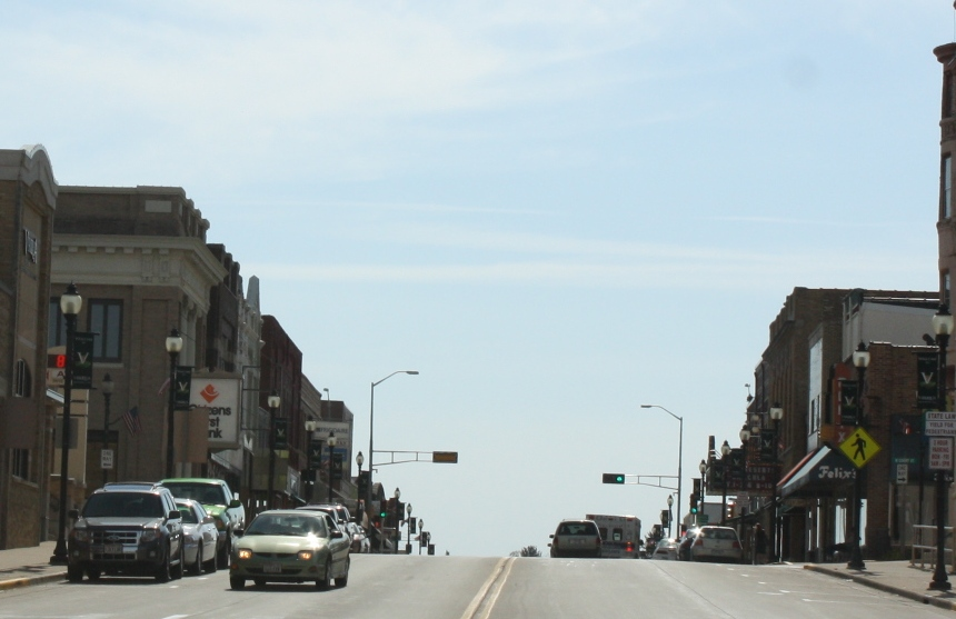 Looking south at the Viroqua Downtown Historic District in Viroqua, Wisconsin on U.S. Route 14 / U.S. Route 61 / Wisconsin Highway 82 / Wisconsin Highway 27.